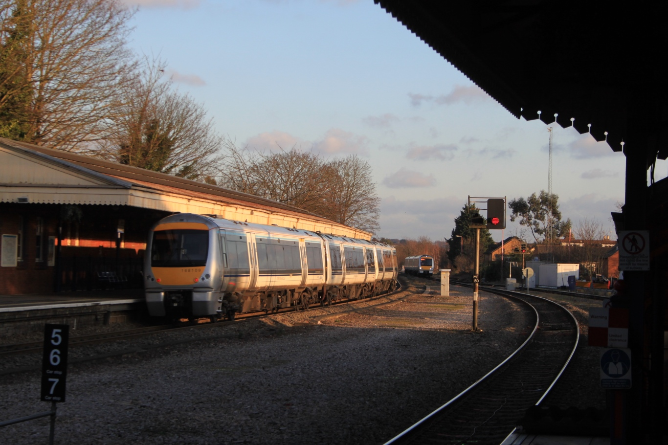 The low afternoon sun shines on Chiltern Railway's 168109 when it calls at High Wycombe with a Banbury to London Marylebone service. Sister unit 168219 is approaching from London.